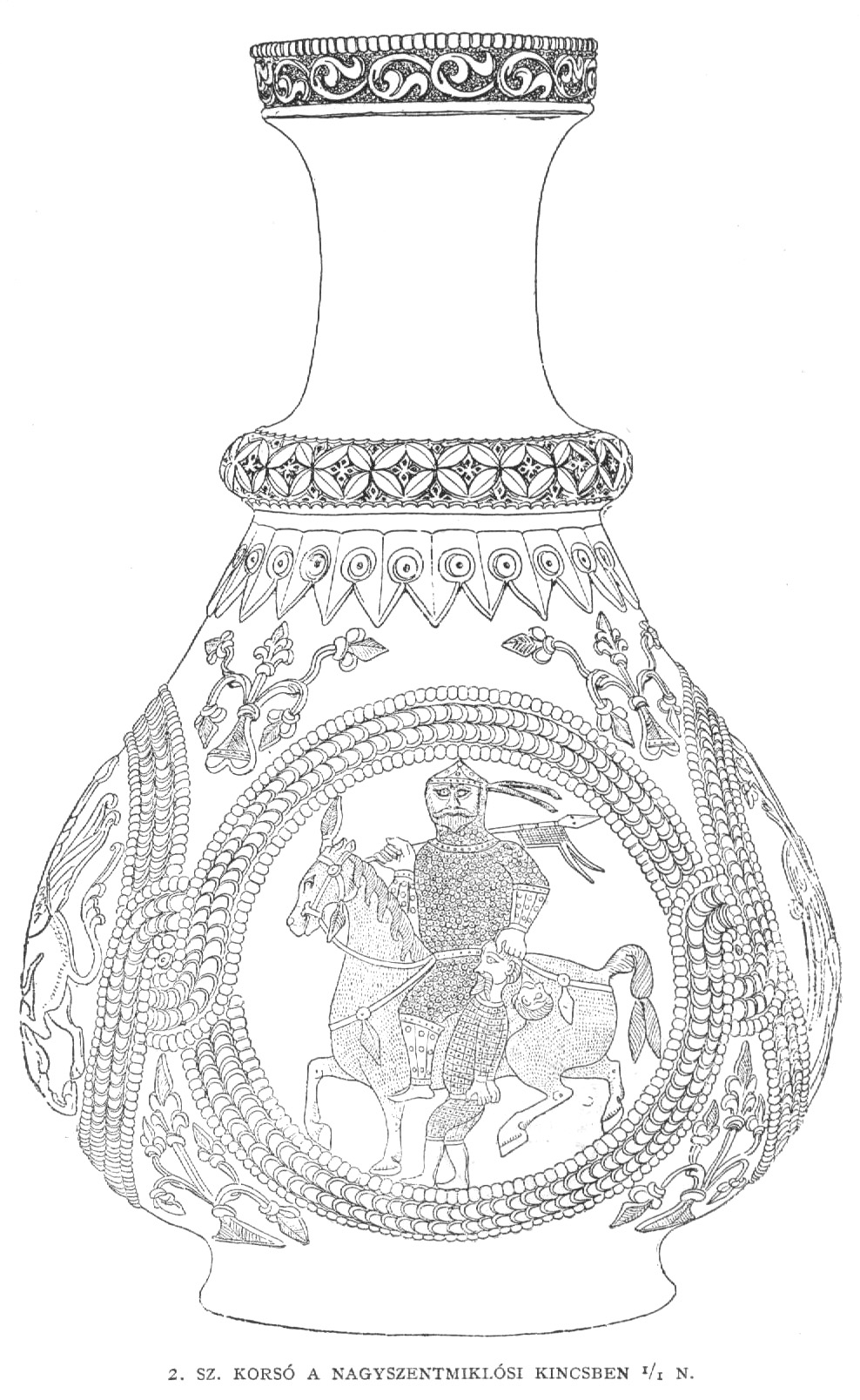 Ewer (jug) No. 2 from Treasure of Nszm